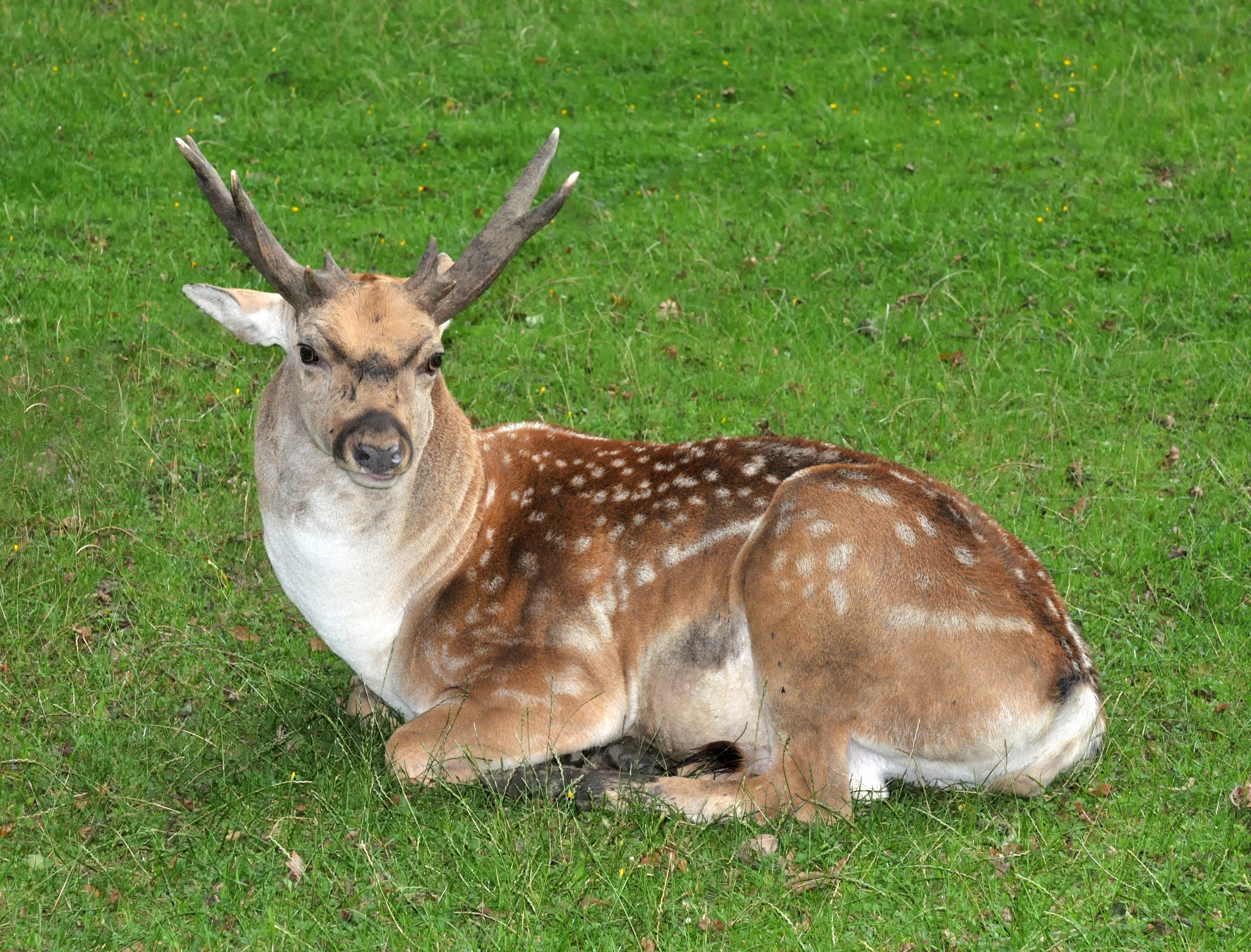 Persian fallow deer in the Wisentgehege Springe game park near Springe, Hanover, Germany